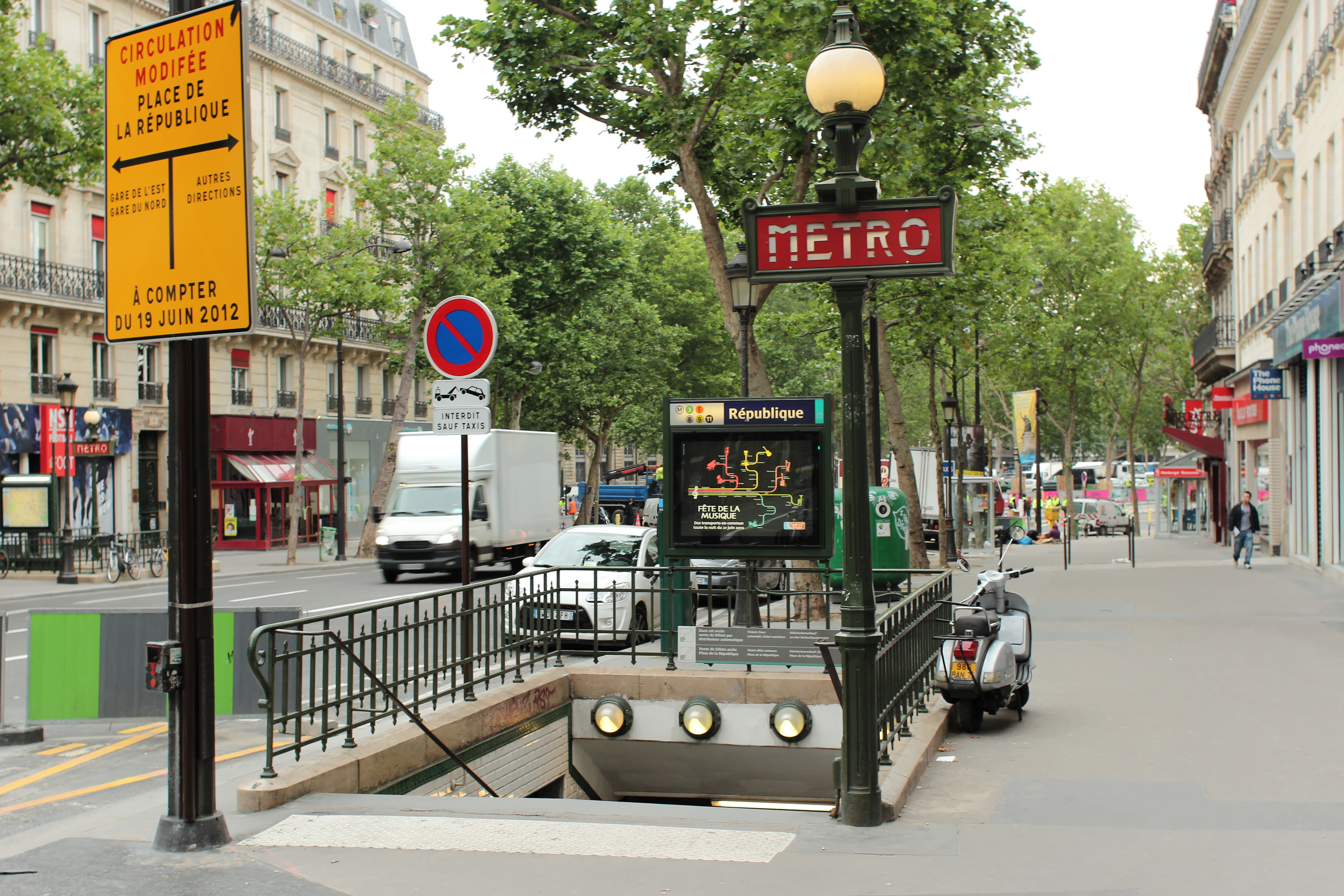 Restructuration of place de la République (Paris).